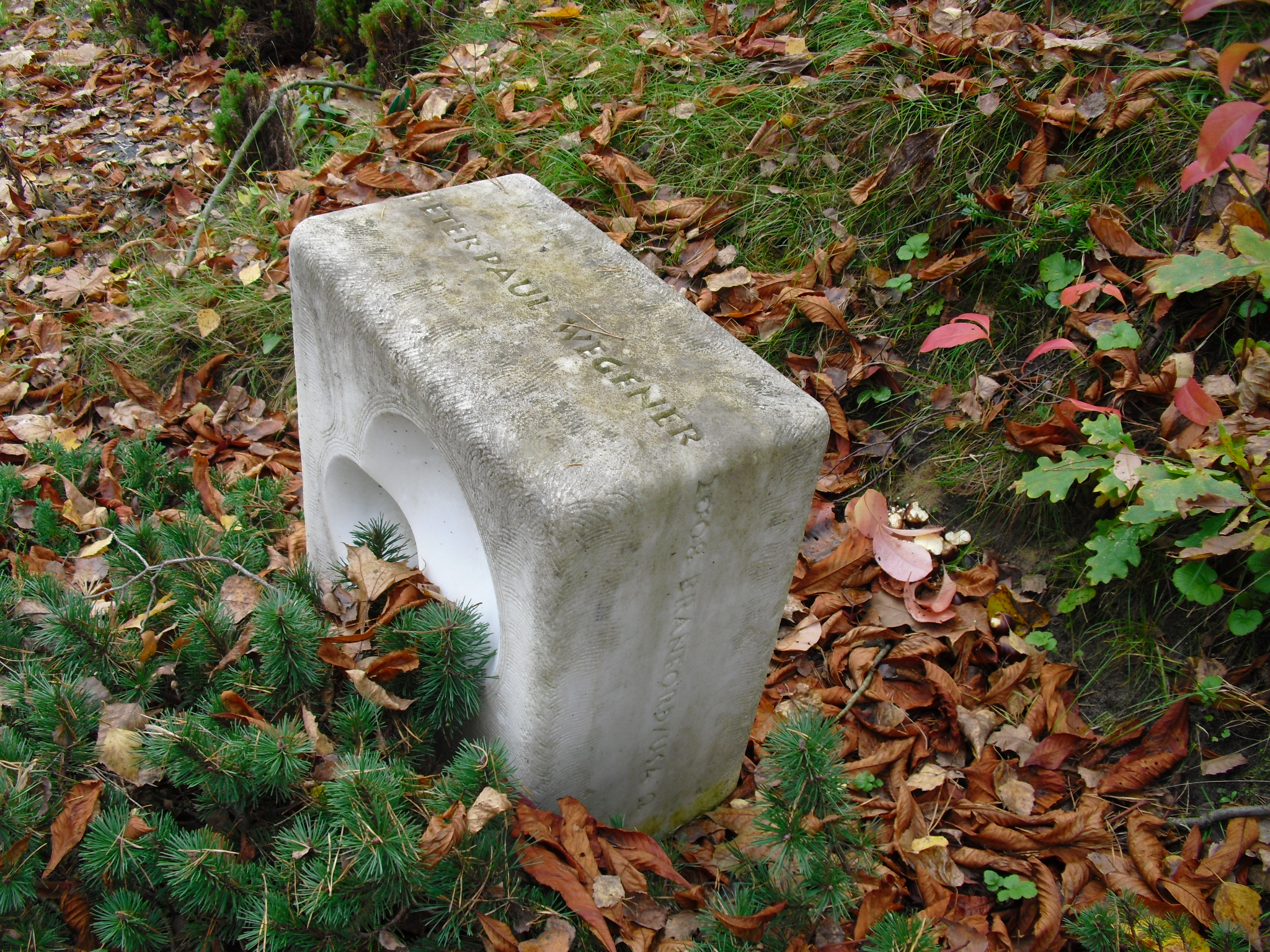 Grave of physicist Peter P. Wegener at Friedhof Heerstraße in Berlin-Westend